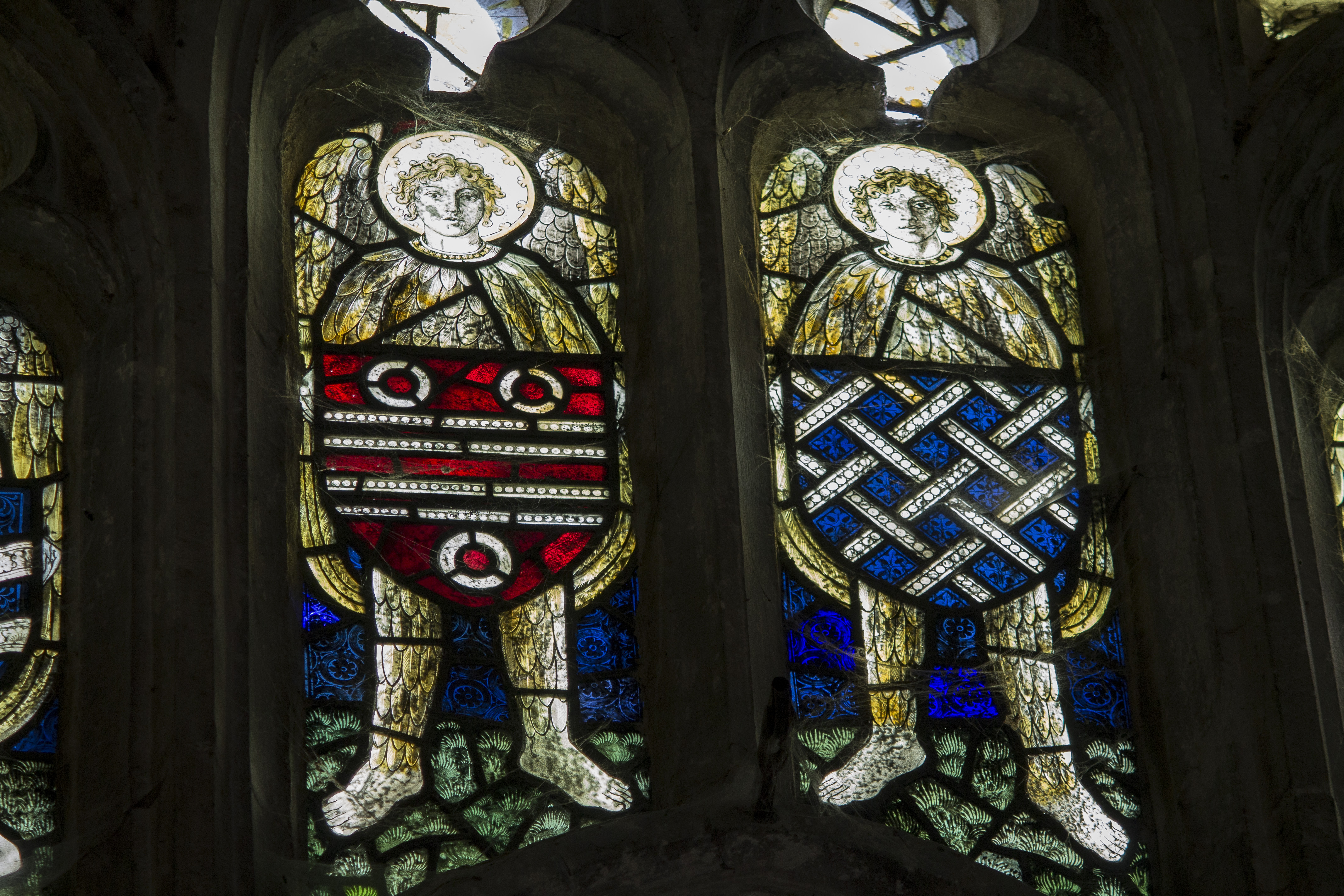 Medieval Stained glass window, St Mary's Nettlestead. Arms: Azure fretty argent (Etchingham); Gules, two bars gemelles between three annulets argent (Rykhill). Text from:[1] The article "The Stained Glass Windows of Nettlestead Church" by W E Ball page 228, gives the family chart of William Batisford and Margaret Peplesham (d 1405) and it gives Sir William Echyngham married Alice Batisford /Battisford and had at least Joan who married William Rickhill(Rykill).This is wrong as William Rikhill(her father in law) who died 1407 was married ,when he died ,to Rosa Medlan and they had sons William and John, Nicholas and so the years don't fit. Records seen to indicate that it was John Rikhill , the son she married. But other information has William Batisford and Margaret Peplesham as having other children including Elizabeth who married Sir Wm Brenchley, a well know court lawyer, and they lived in Kent. There is a will for Elizabeth Batisford Brenchley on file at Canterbury in 1453 in which she leaves estate to Echyngham relatives Elizabeth Lewknor and Thomas Hoo .Her niece and gr nephew/ This should show some relationship and give proof that Joan and Elizabeth came via the Batisford line.